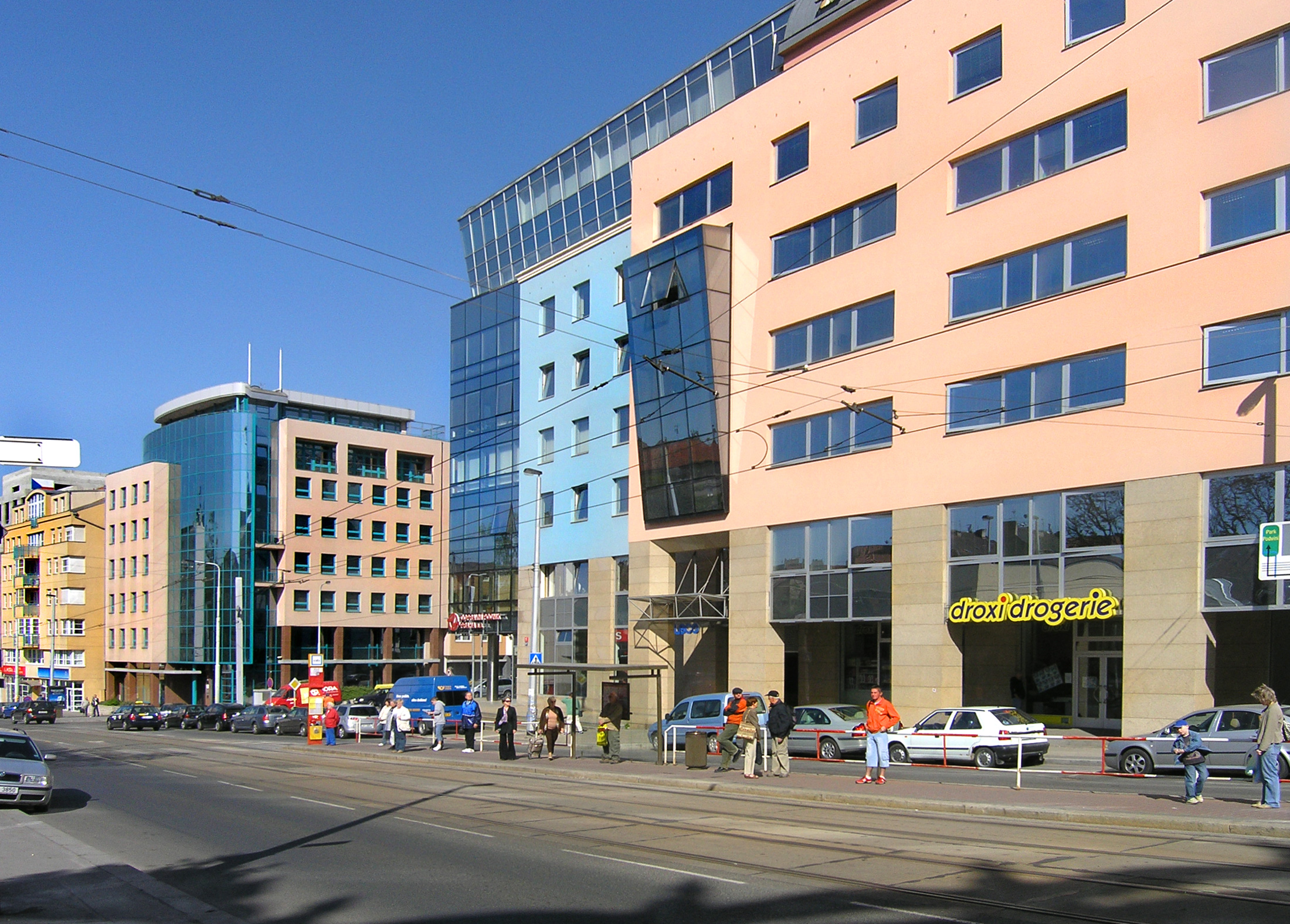 Sokolovská street at Vysočany, Prague